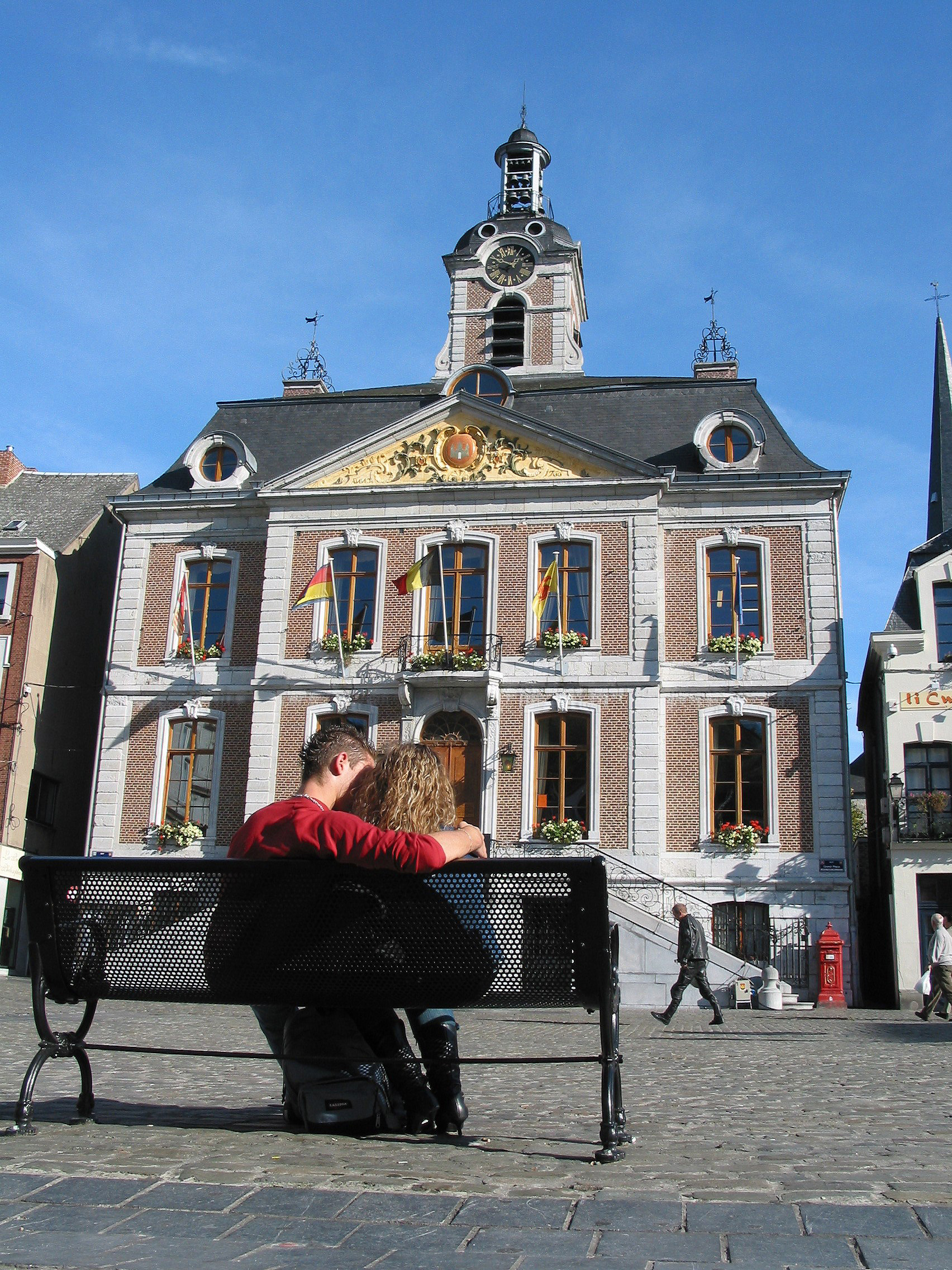 Huy (Belgium), The town hall (1766 - architect: Jean-Gilles Jacobs).